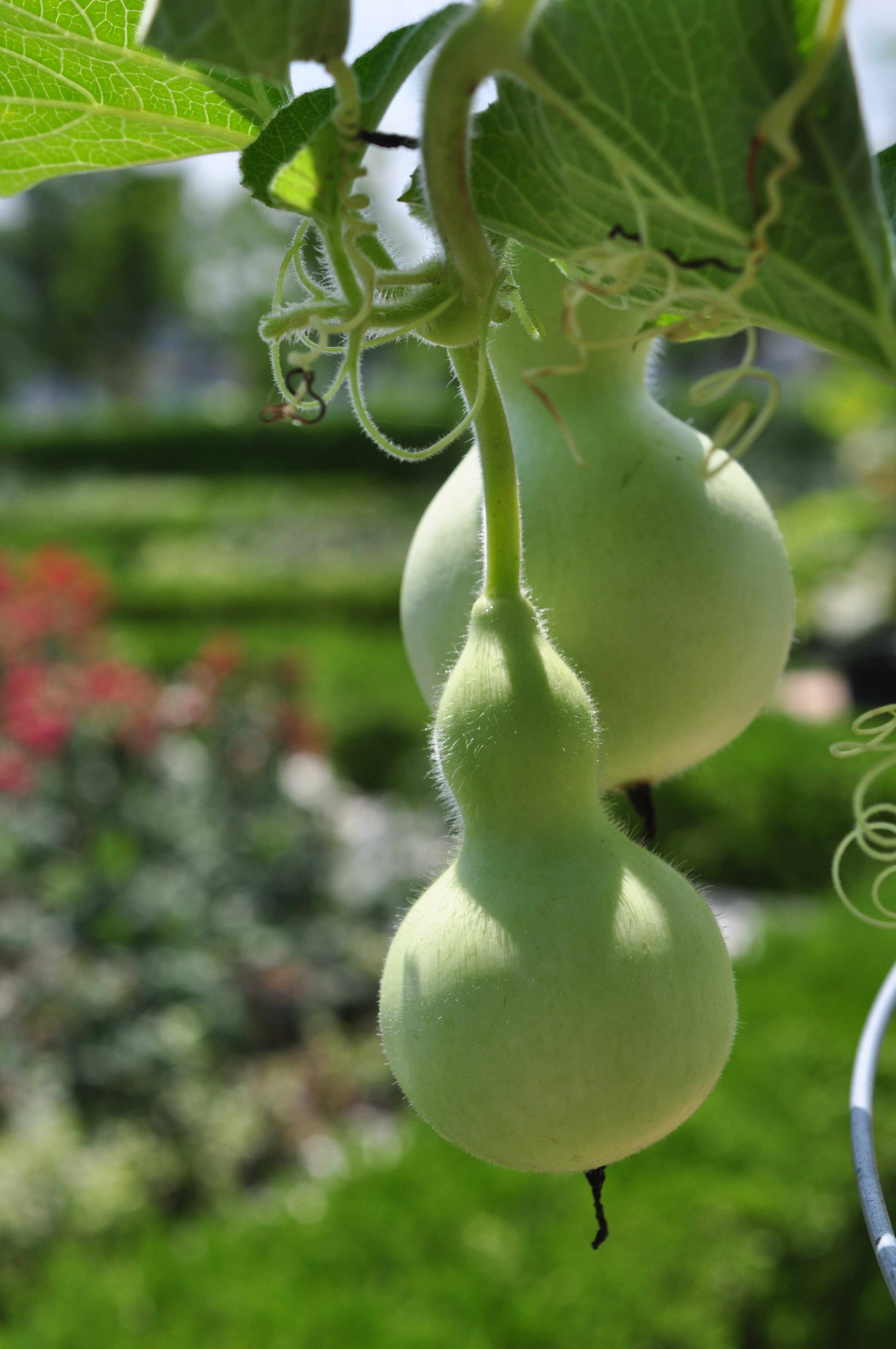 Calabash (Lagenaria siceraria) in Seoul